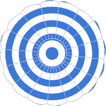 National Cockade of Uruguay